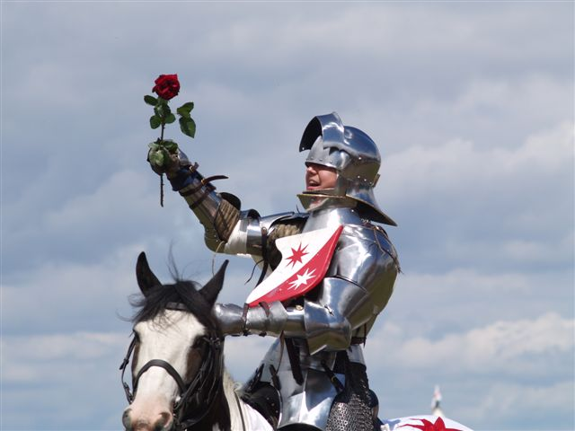 Tewkesbury Medieval Festival 2008